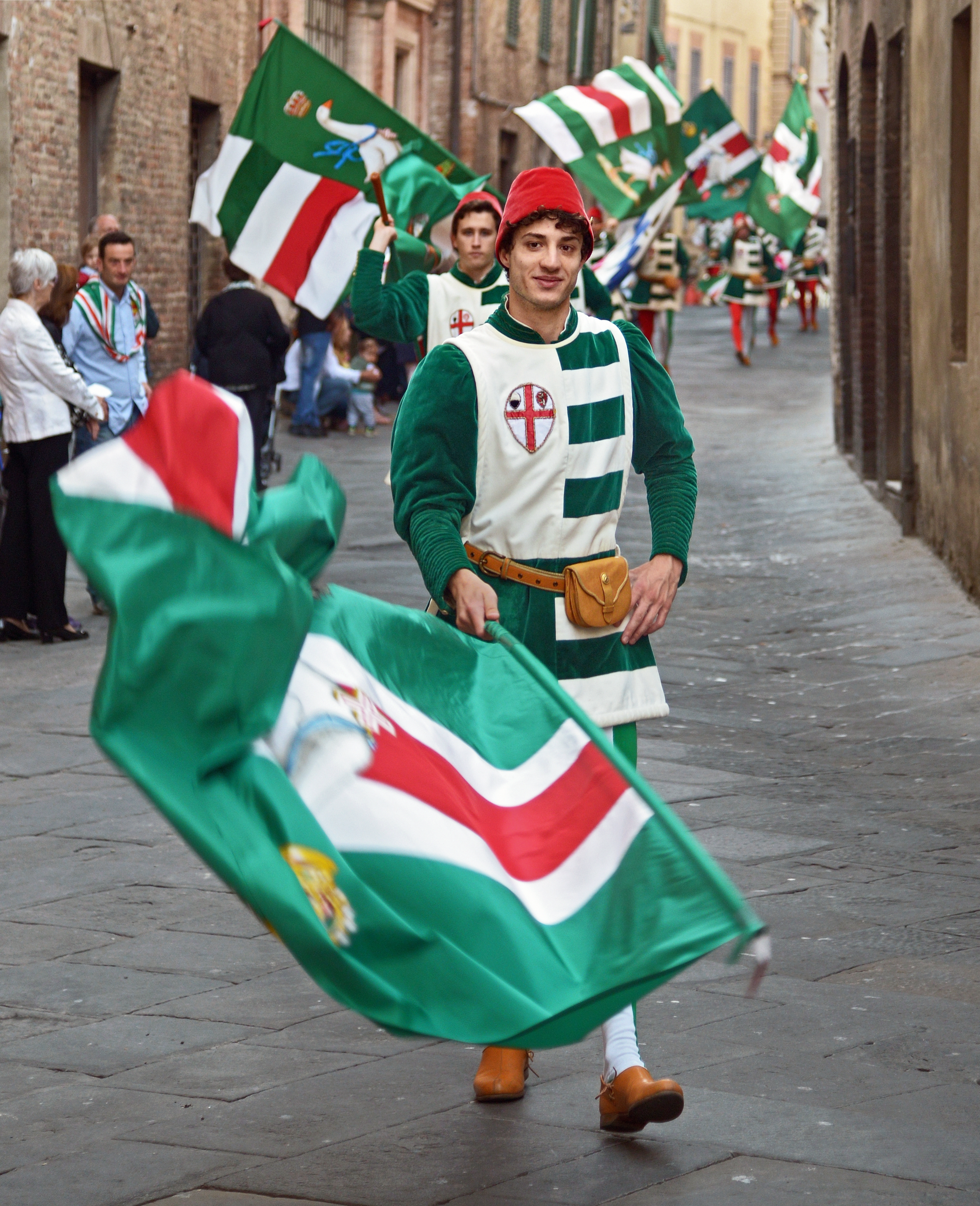 The procession of the Noble Contrada "Oca (Goose)". Siena, Italy